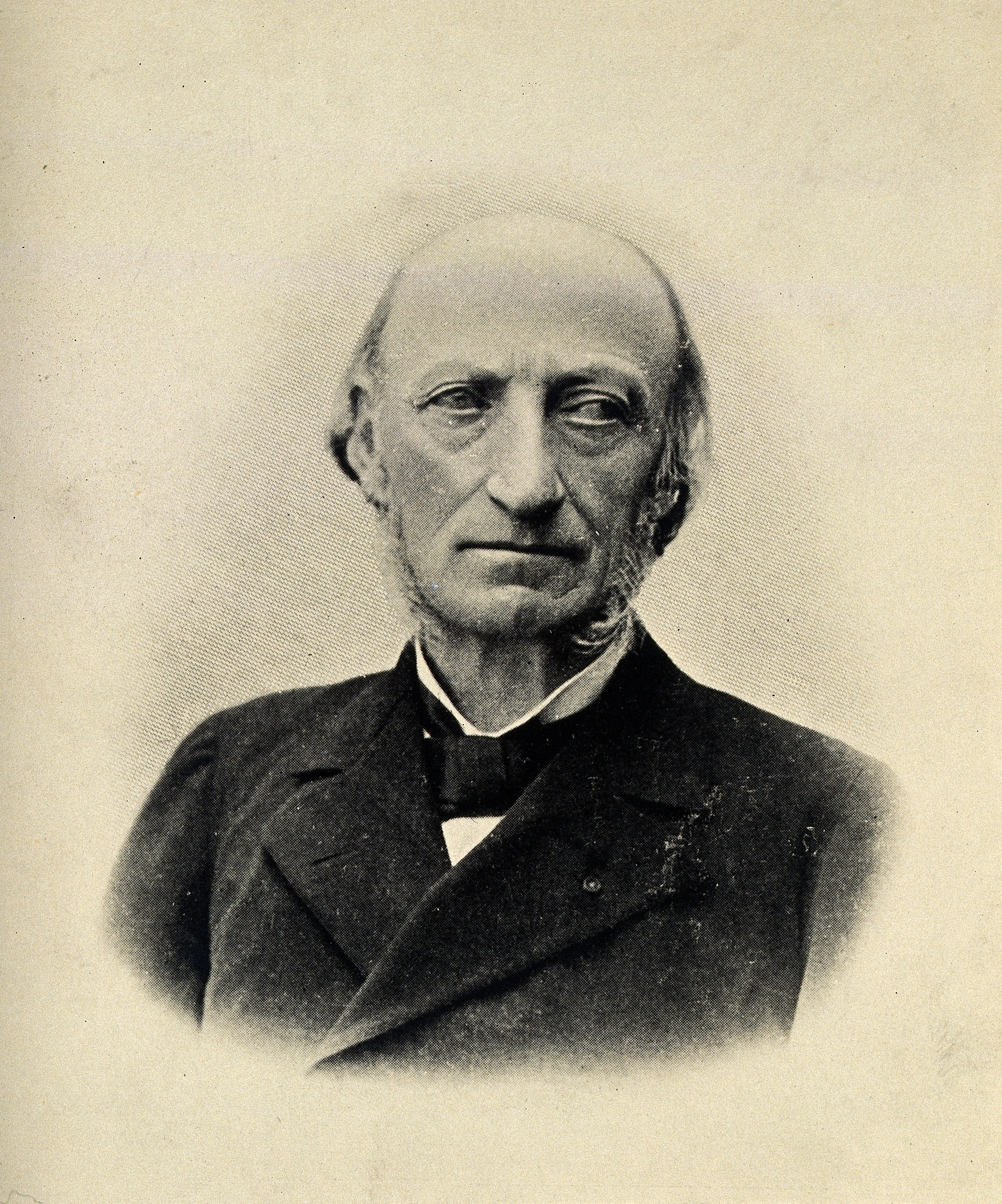 Charles-Pierre Potain. Photomechanical print. Iconographic Collections Keywords: portrait prints